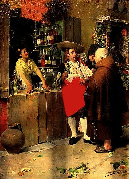 Luis Jimenez Y. Aranda's Spanish Wine Shop (1873), an oil on canvas painting from the Drexel Collection in the Paul Peck Alumni Center, Drexel University, Philadelphia.